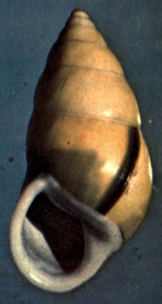 Photo of apertural view of the shell of paratype of Amphidromus perversus butoti. Paratype showing infraviridis color pattern. Locality: Bajutan, Kangean Island. Collected by Hoogerwerf on 20 August 1954. Zoologisch Museum, Amsterdam.